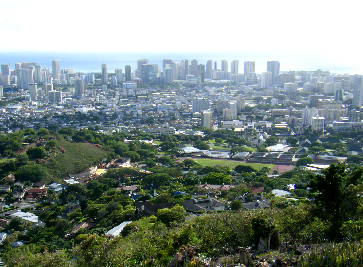 Punahou School in Manoa with Waikiki, Honolulu in background